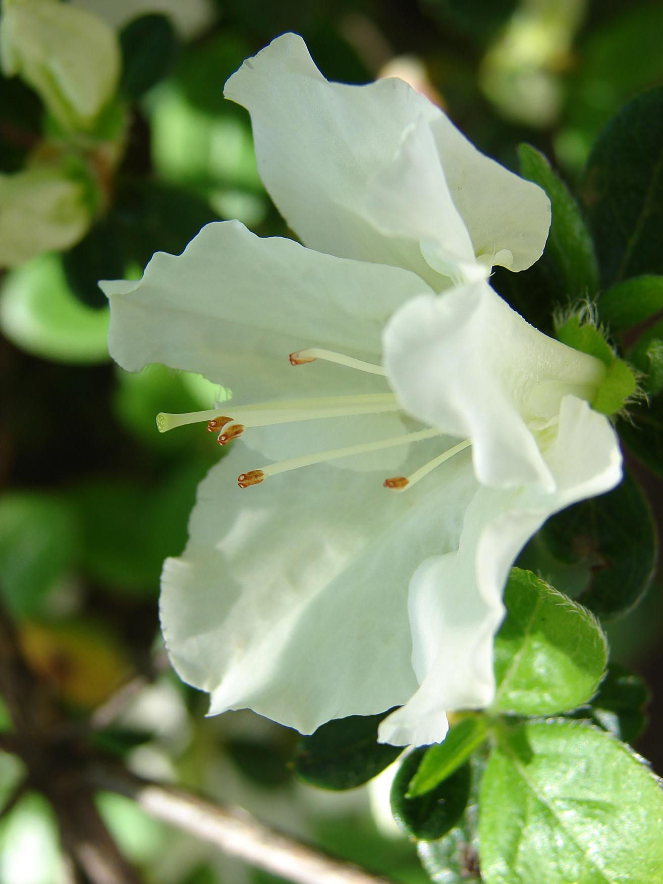 A white azalea flower